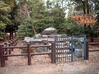 Former Saiku, Meiwa Town, Mie Prefecture, Japan.